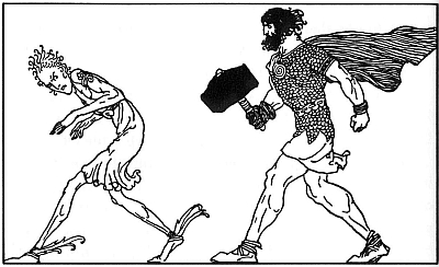 The Children of Odin The Book of Northern Myths